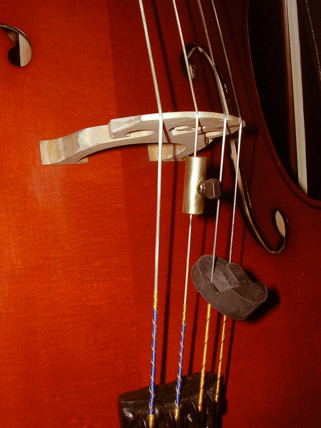 This is a photograph of a cello's bridge, wolf tone eliminator and mute. I took this photo on March 23, 2006 with a Nikon Coolpix 3100.